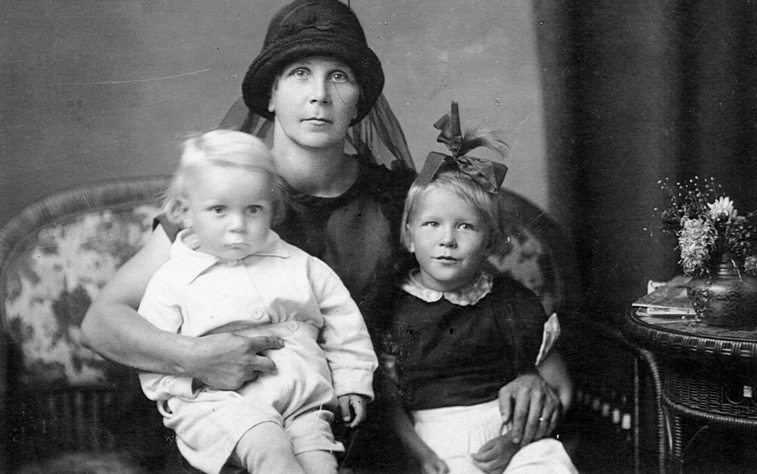 Photograph of the Finnish folklore collector and writer Ulla Mannonen (1895–1958) with her children Olavi (1925–) and Kyllikki (1922–1988). Photographed in Makslahti, Koivisto.